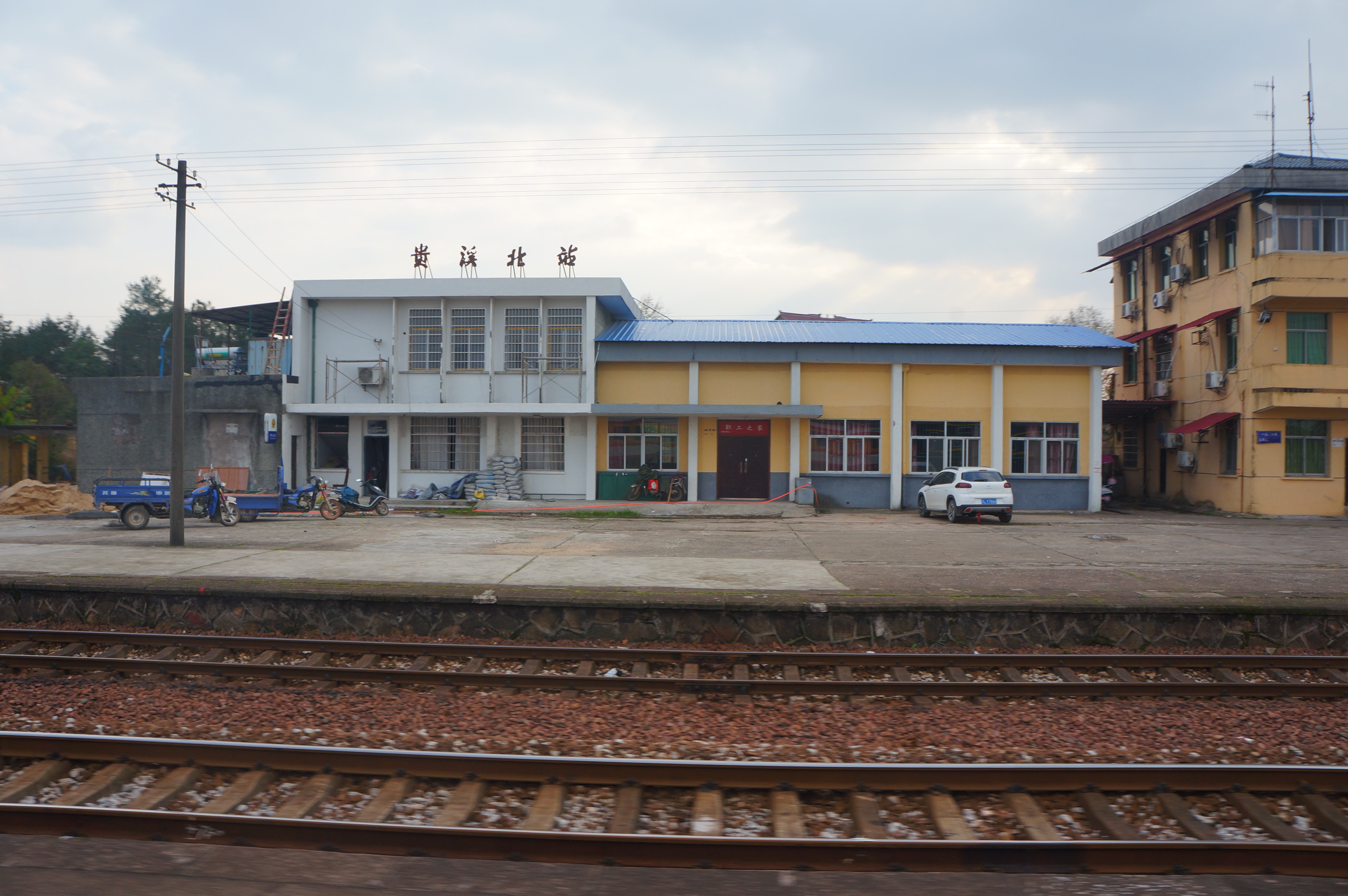 201612 Guixibei Railway Station